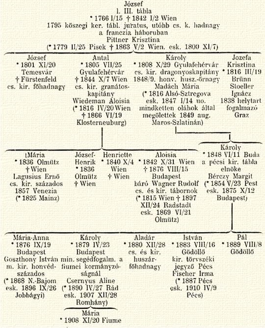 Heraldry of Austro-Hungarian nobility